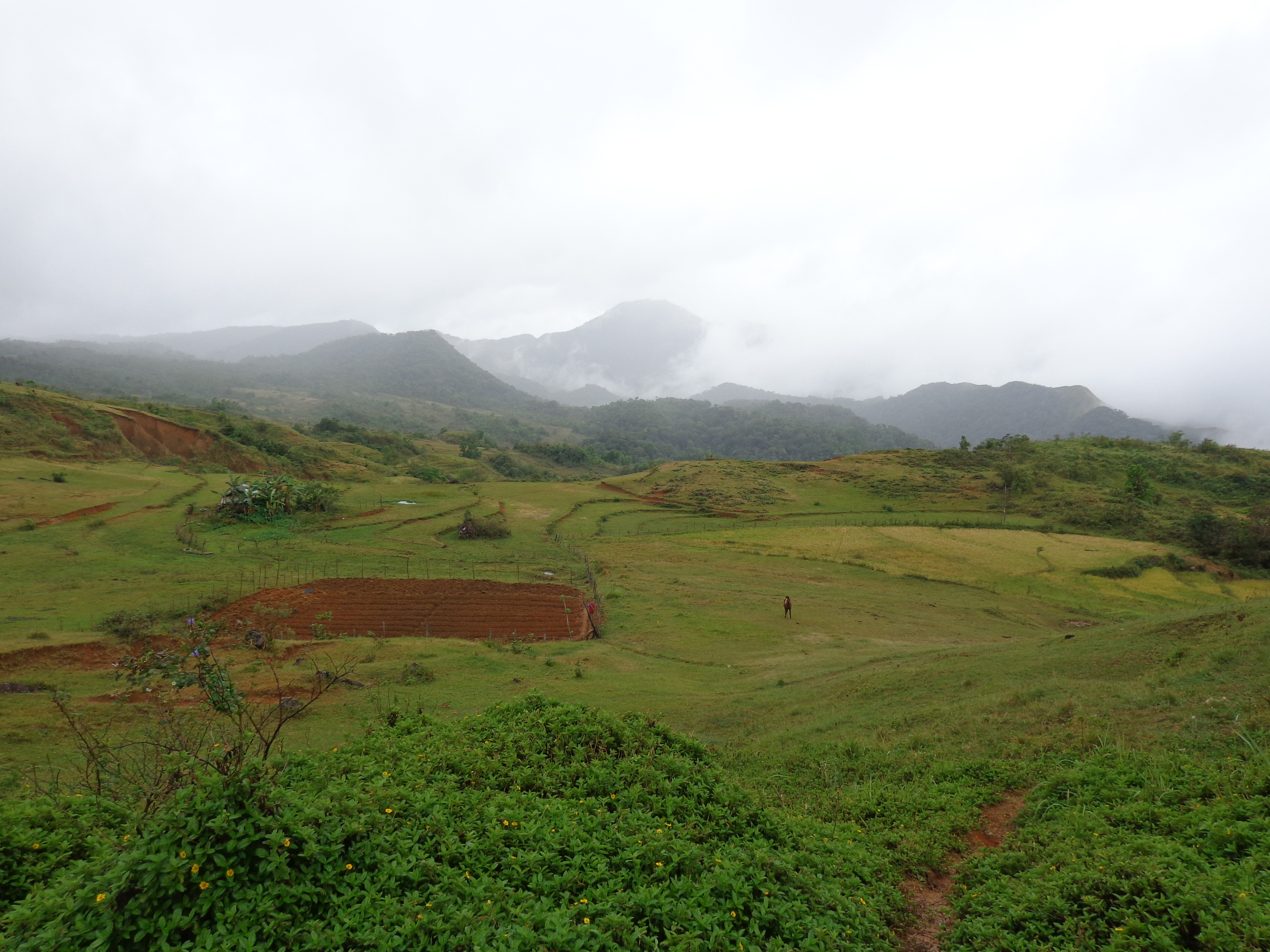 Farmland and mountains in Brgy Aningalan, San Remegio, Antique, Philippines